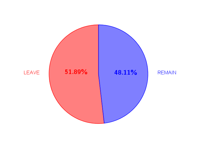 The Brexit referendum voting results.